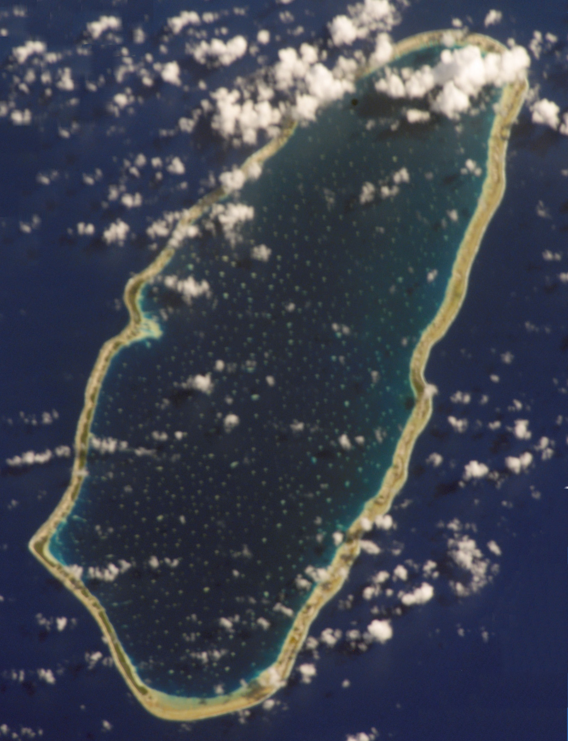 Atoll Raroia (Tuamotu Archipelago, French Polynesia), from space.